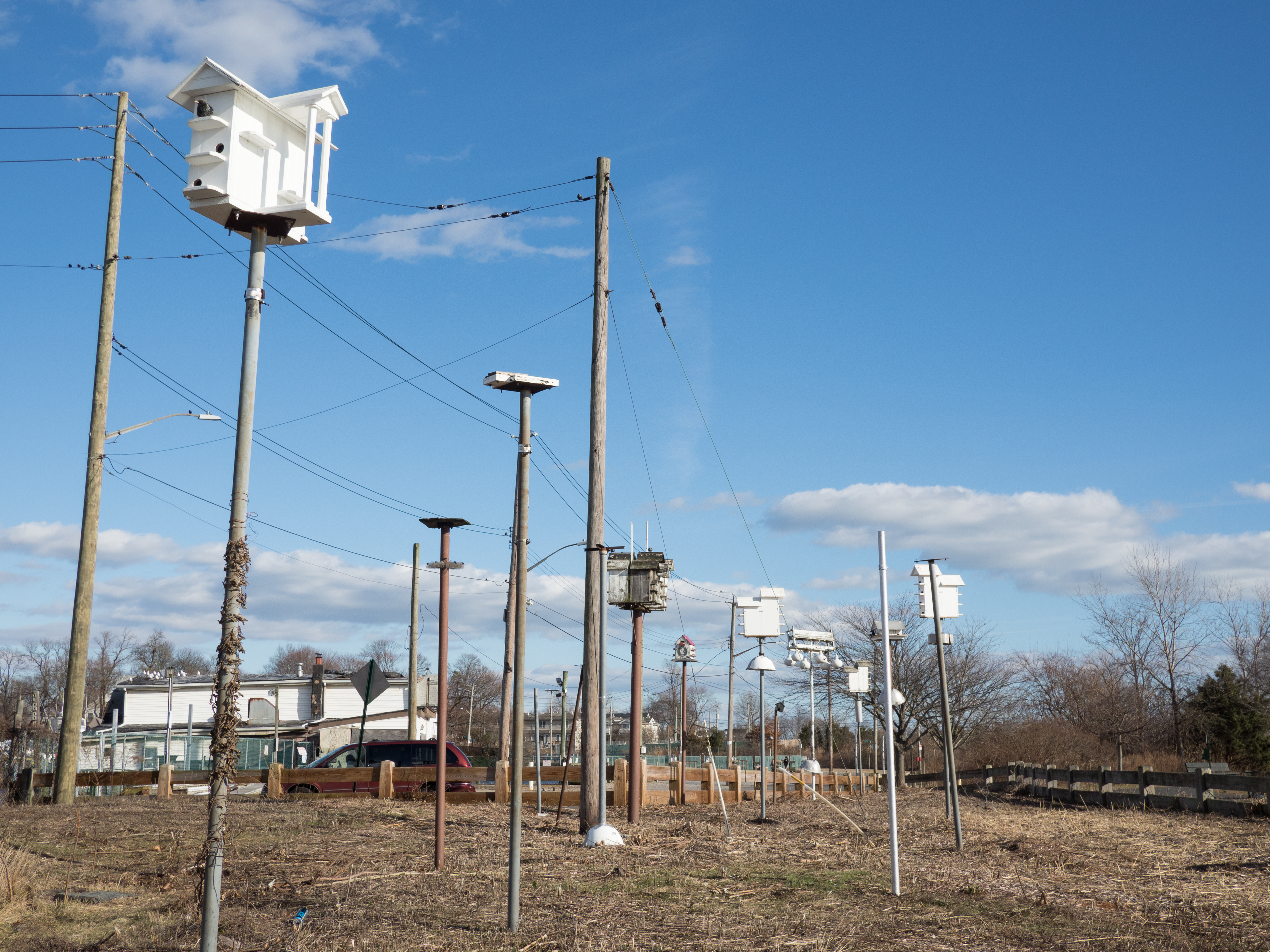 In Lemon Creek Park, Staten Island, there's a strange little plot of land with a bunch of these birdhouses. Apparently someone built them for migrating purple martins. This time of year, they largely belong to the starlings (Sturnus vulgaris).